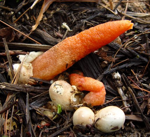 Elegant Stinkhorn Mutinus elegans Captioned As { }